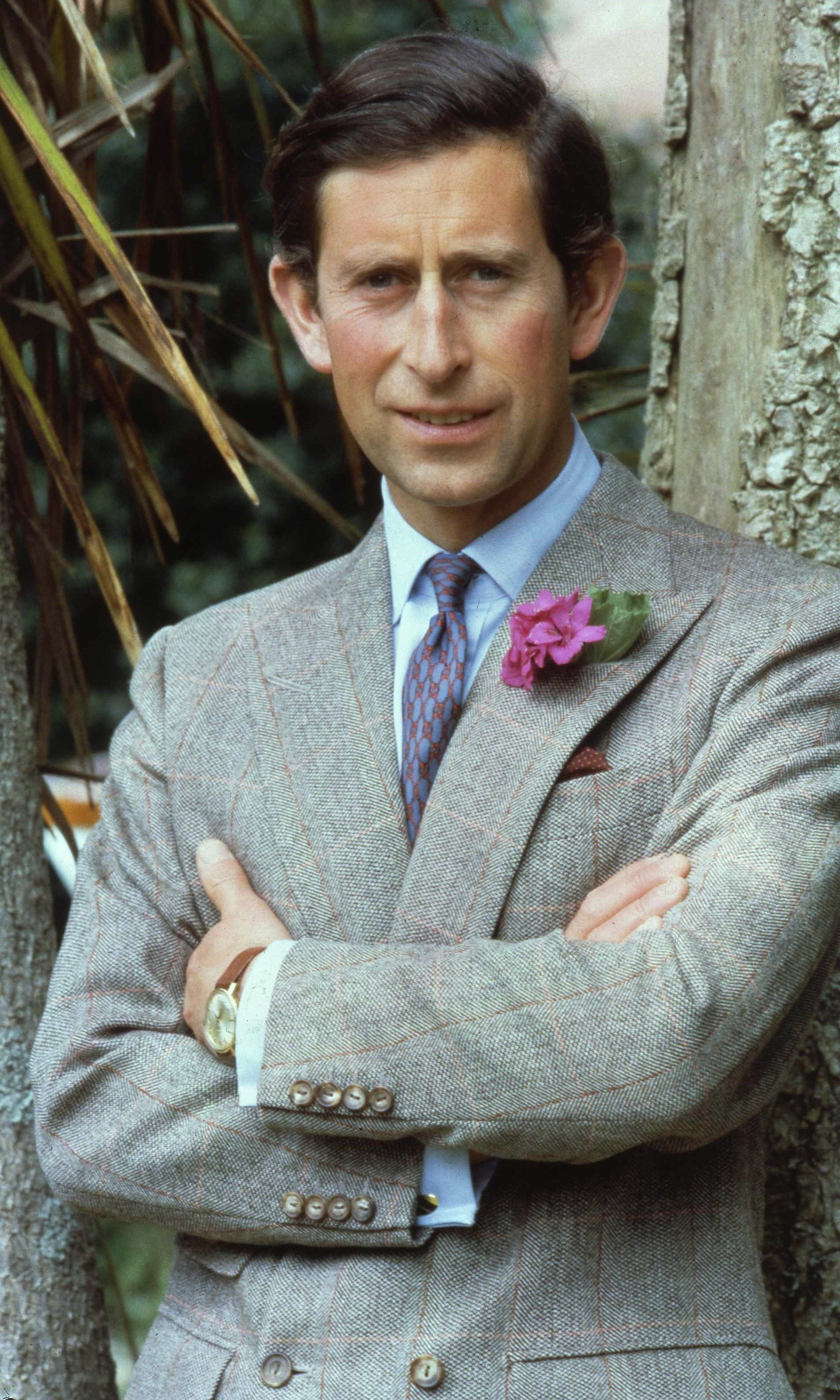 His Royal Highness Prince Charles, Duke of Cornwall Kernowek: Y Ughelder Ryal Pryns Charlys, Dug Kernow